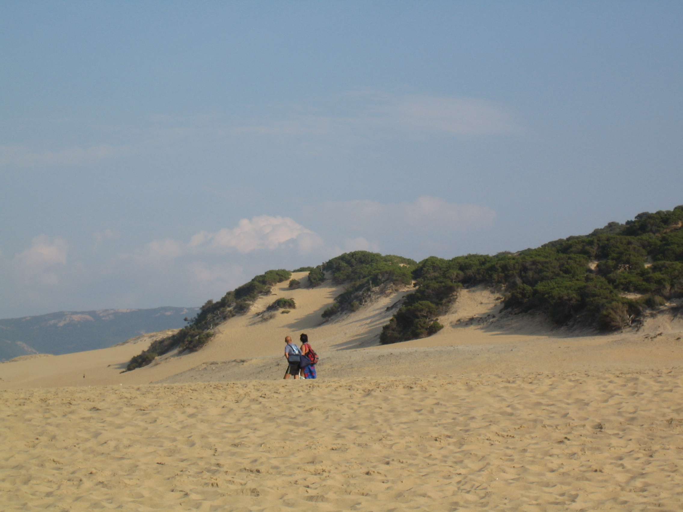 Sand dunes on Piscinas beach, Costa Verde, west Sardinia, Italy.